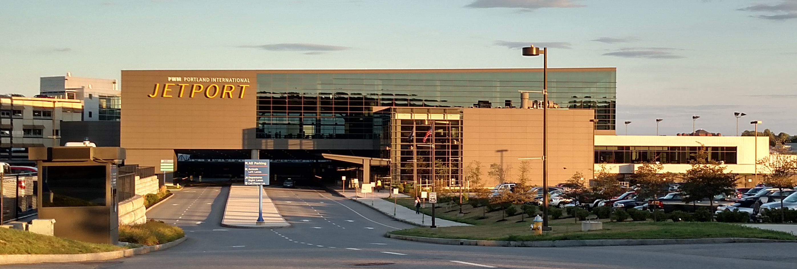 Jetport at Sunset